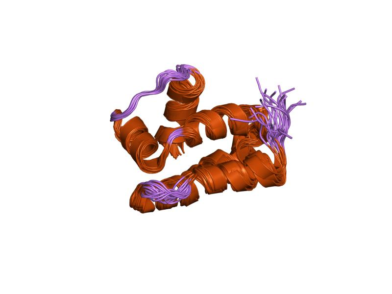 Cartoon representation of the molecular structure of protein registered with 1puz code.